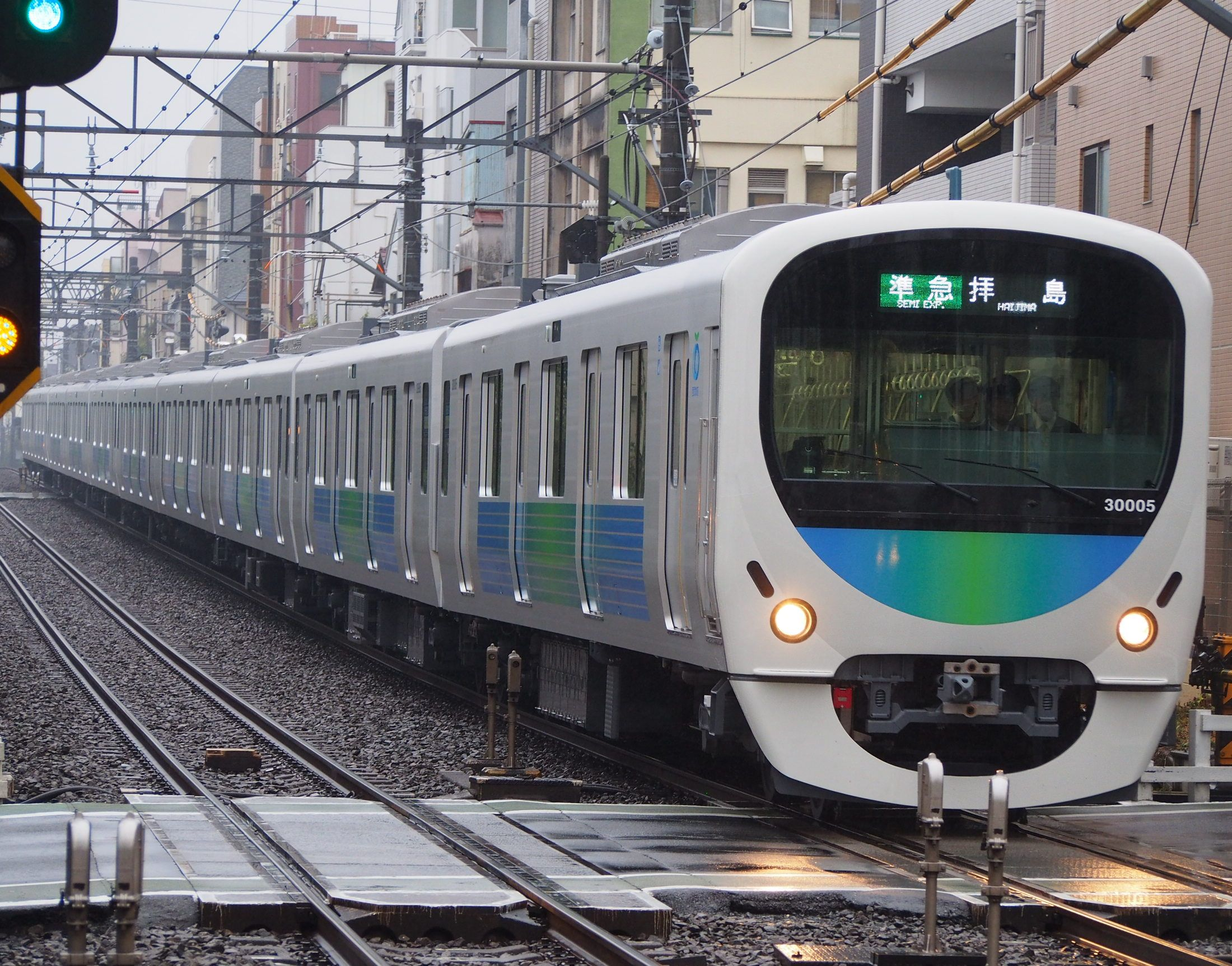 Seibu 30000 series 10-car EMU set 30105 on a Seibu Shinjuku Line semi express service for Haijima